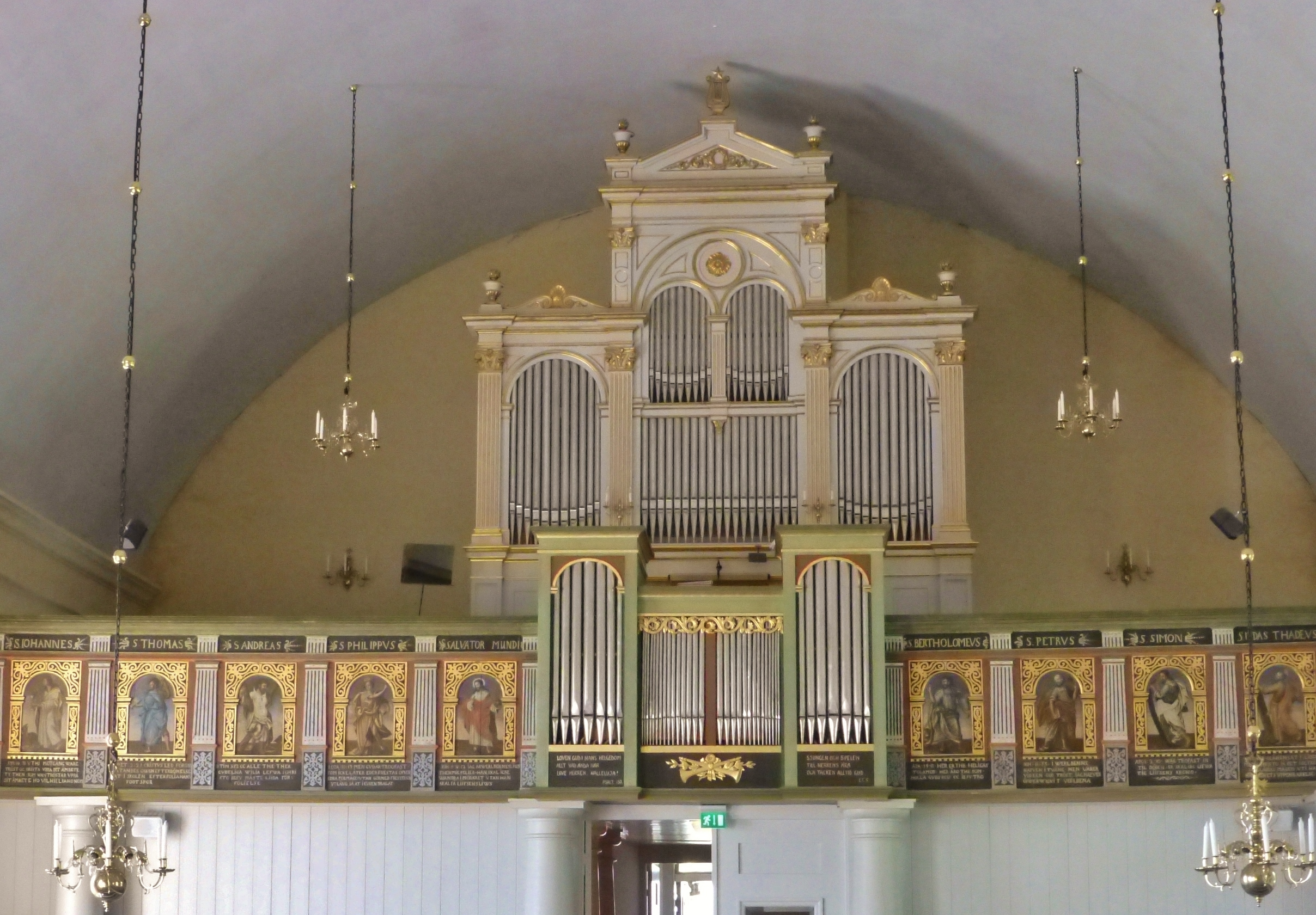 Listerby Church.Organ